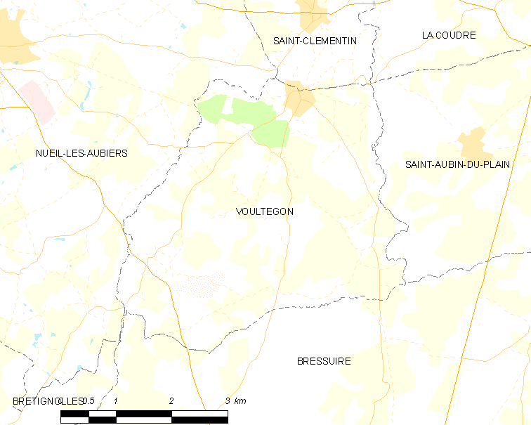 Map of French municipality Voultegon